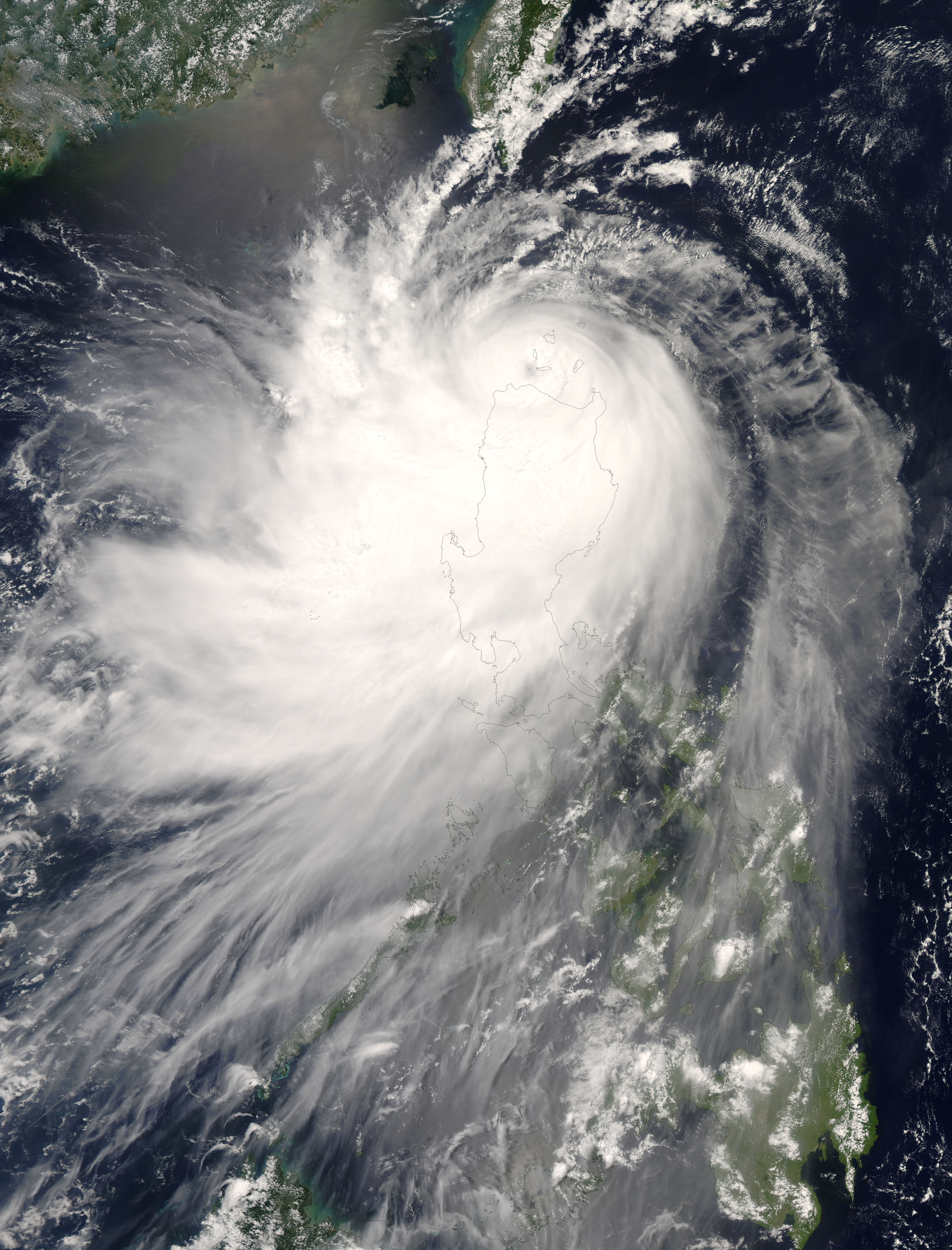 Typhoon Nuri (2008) as seen from Aqua Satellite on 2008-08-20